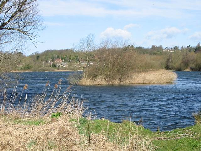 Westbere lake and Wesbere village in background